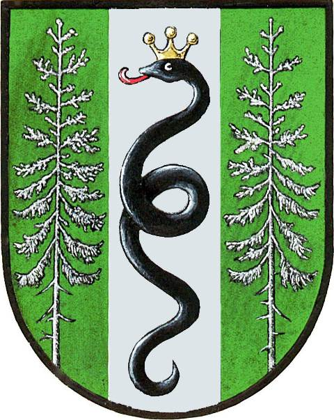 Coat of arms of Wundschuh, Styria